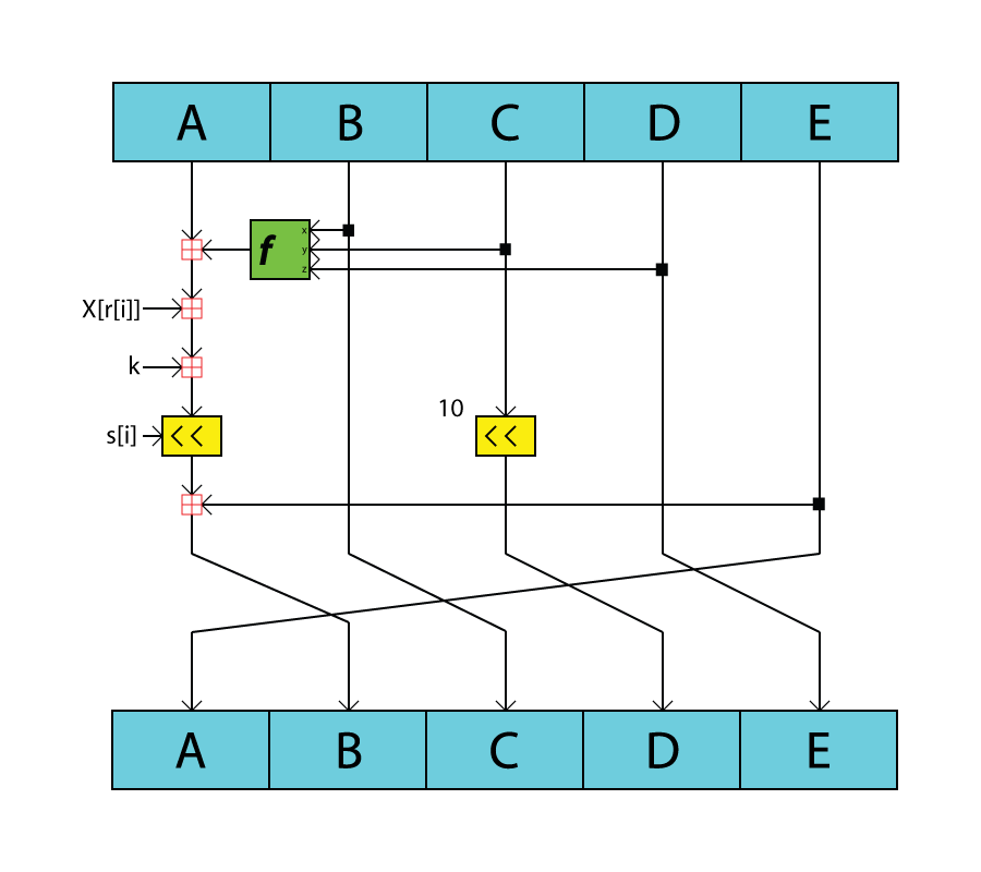 A sub block from the compression function of the RIPEMD 160 hash algorithm. The compression function processes the message in blocks of 512 bits which are passed through two streams of these sub blocks using 5 different versions (different k constants and different nonlinear functions) which are run 16 times each for a total of 80 runs through the sub block on each side.